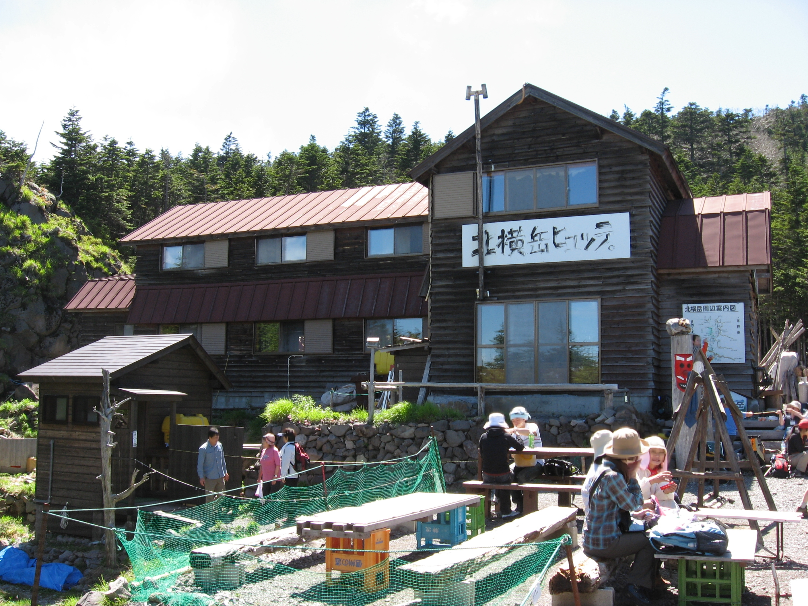 Kitayokodake Hütte (Mount Kitayoko Hut) in the Yatsugatake Mountains, Japan